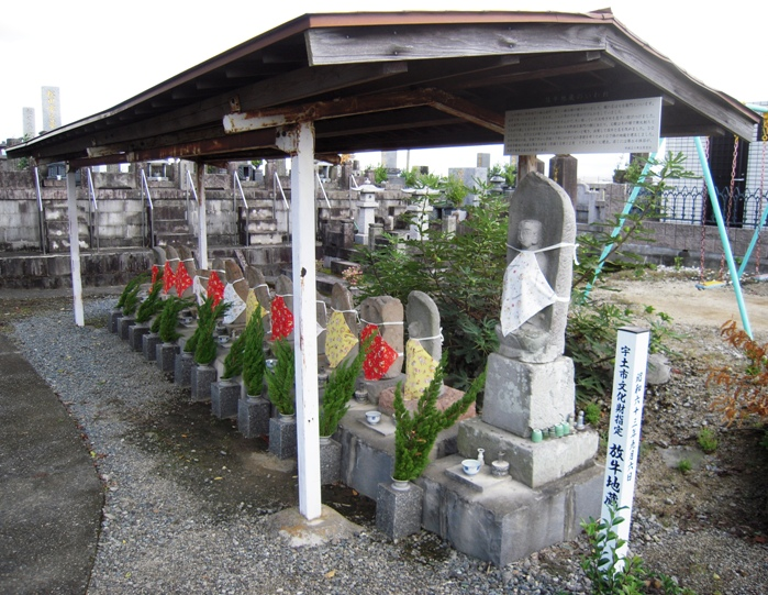 Jizo by the Edo-period monk Hogyu at Saianji in Uto, Kumamoto, Japan